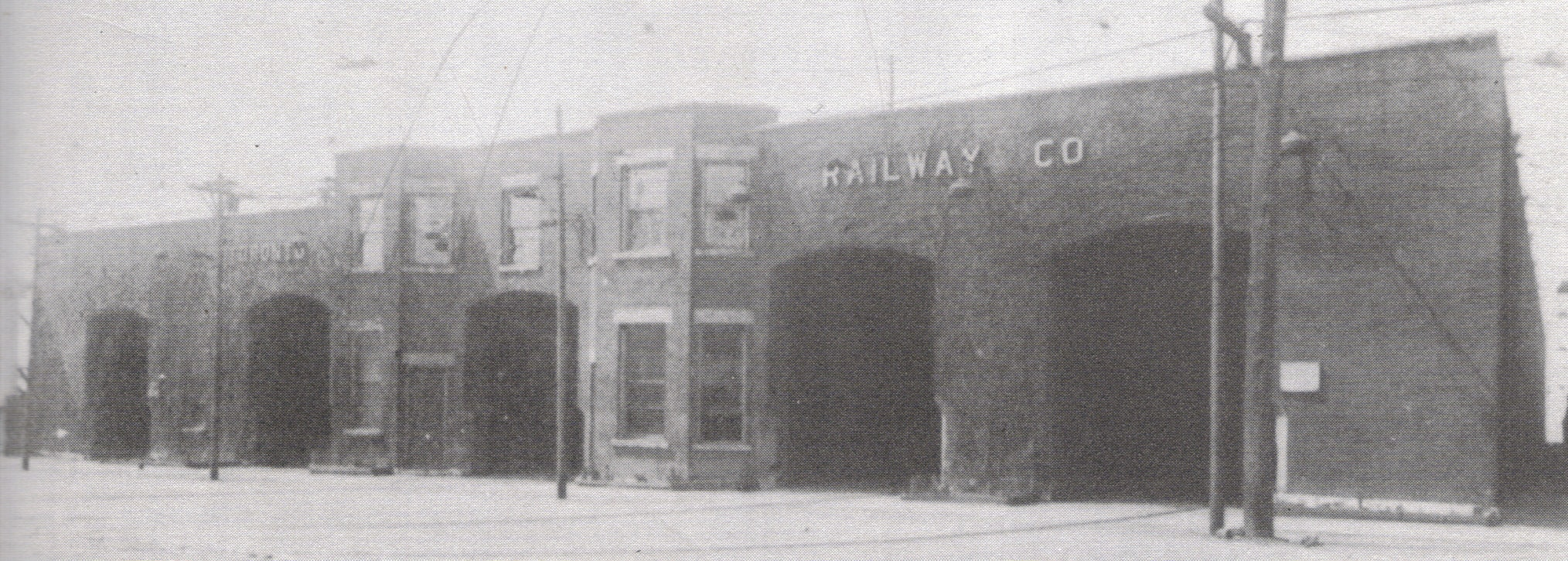 The 1895 Car House on Roncesvalles Avenue